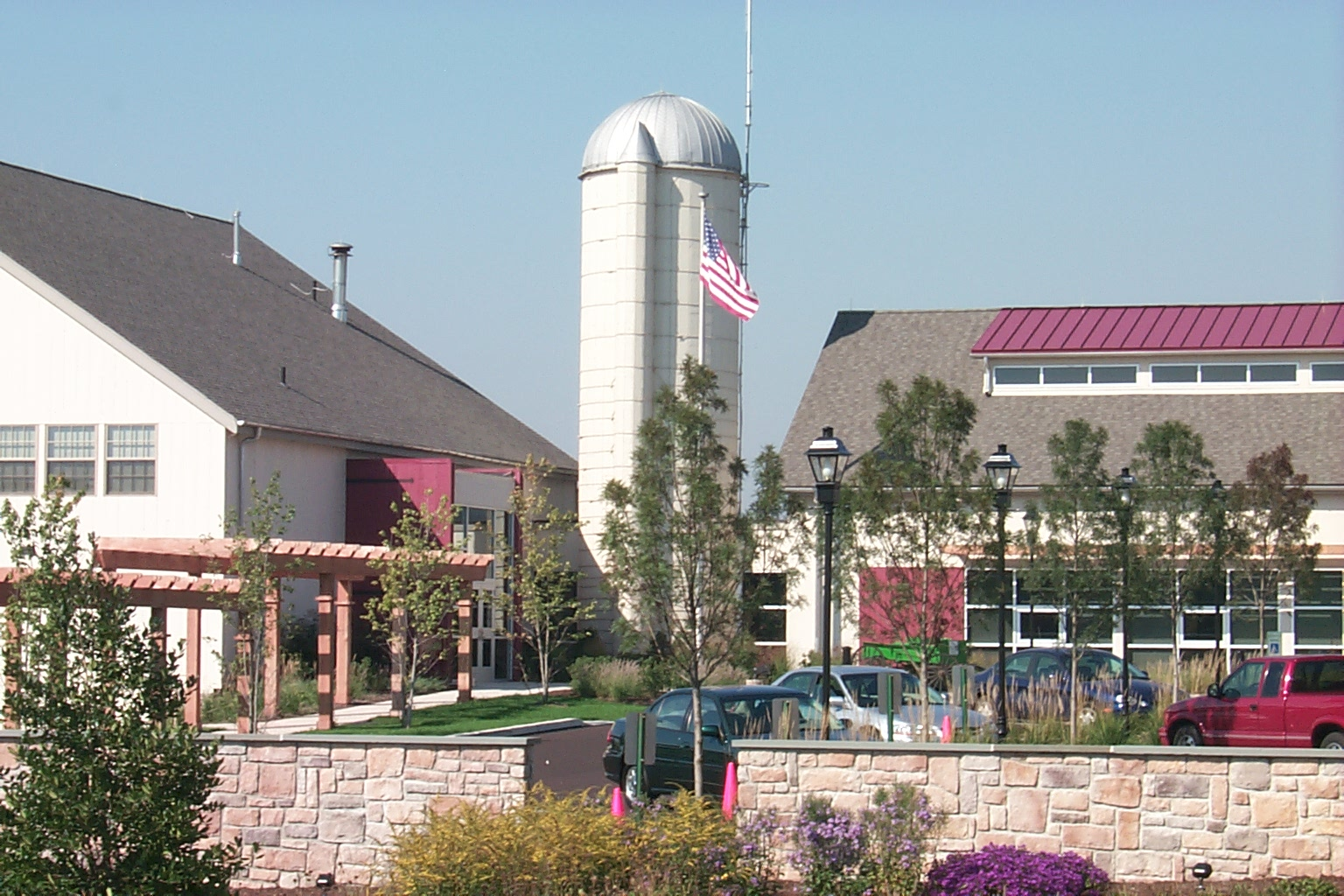 The municipal building of Towamencin Township, Montgomery County, Pennsylvania, ca 1999